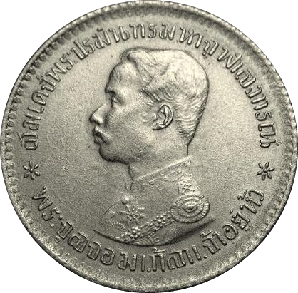 One-salung coin, silver, 1908, Thailand, obverse.